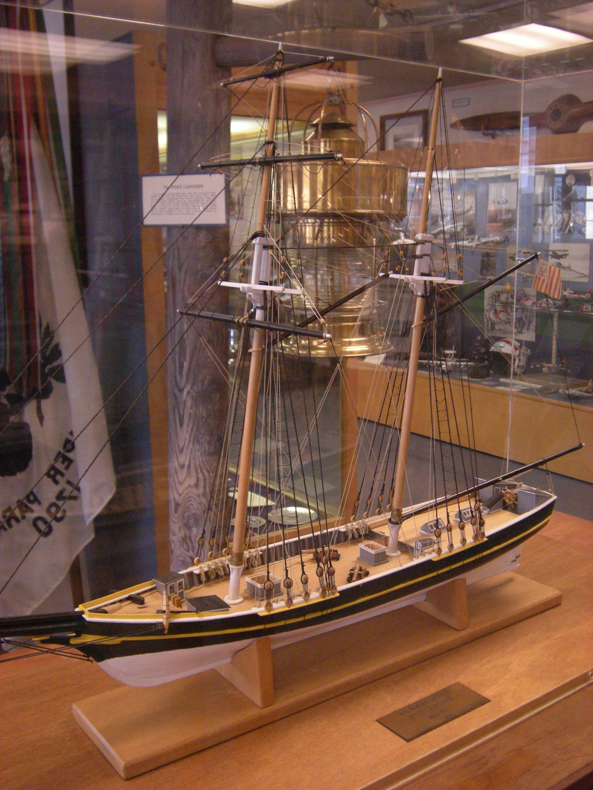 Model of the revenue cutter Jefferson Davis. On display at Coast Guard Museum/Northwest, Seattle, Washington.